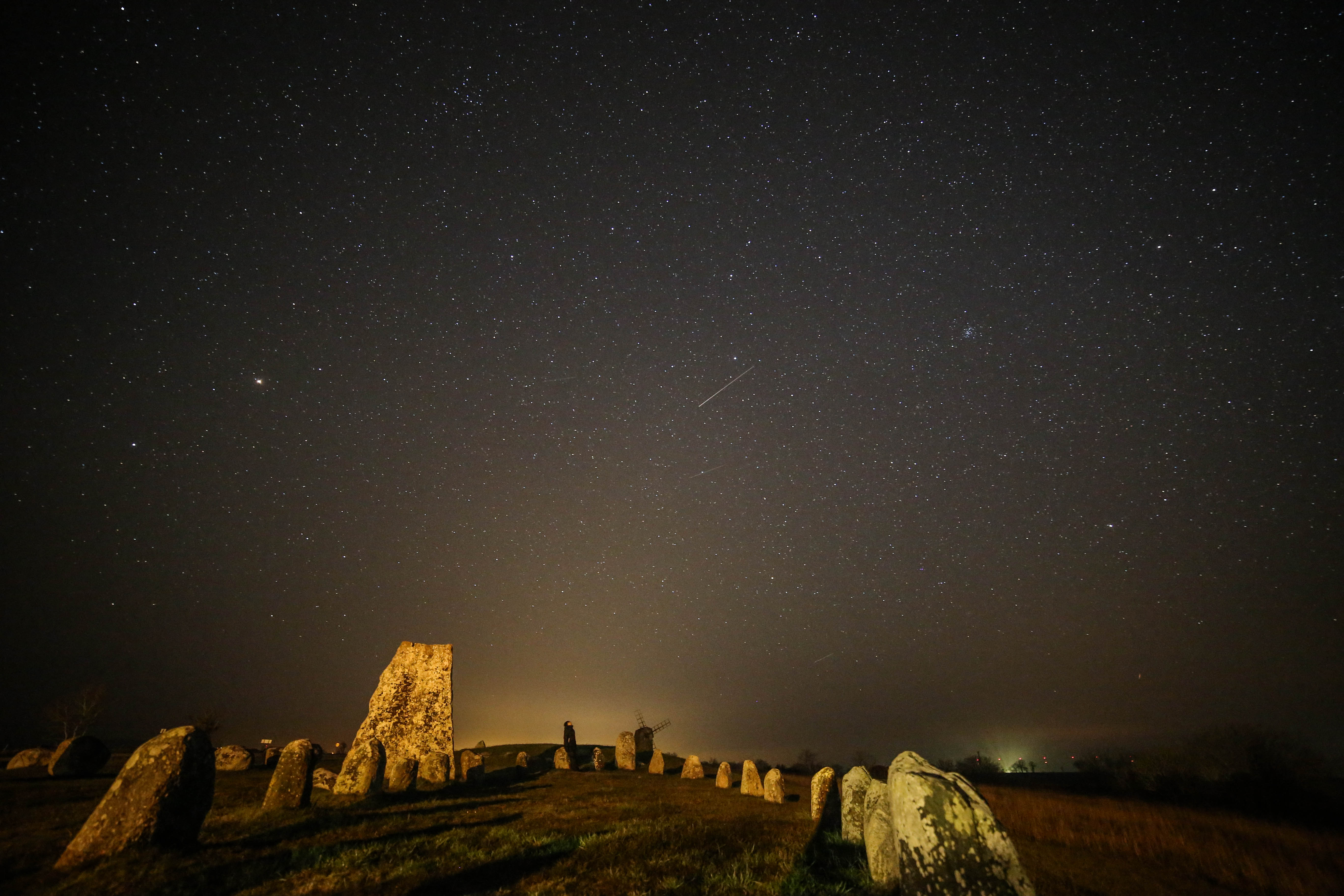 Gettlinge grave field